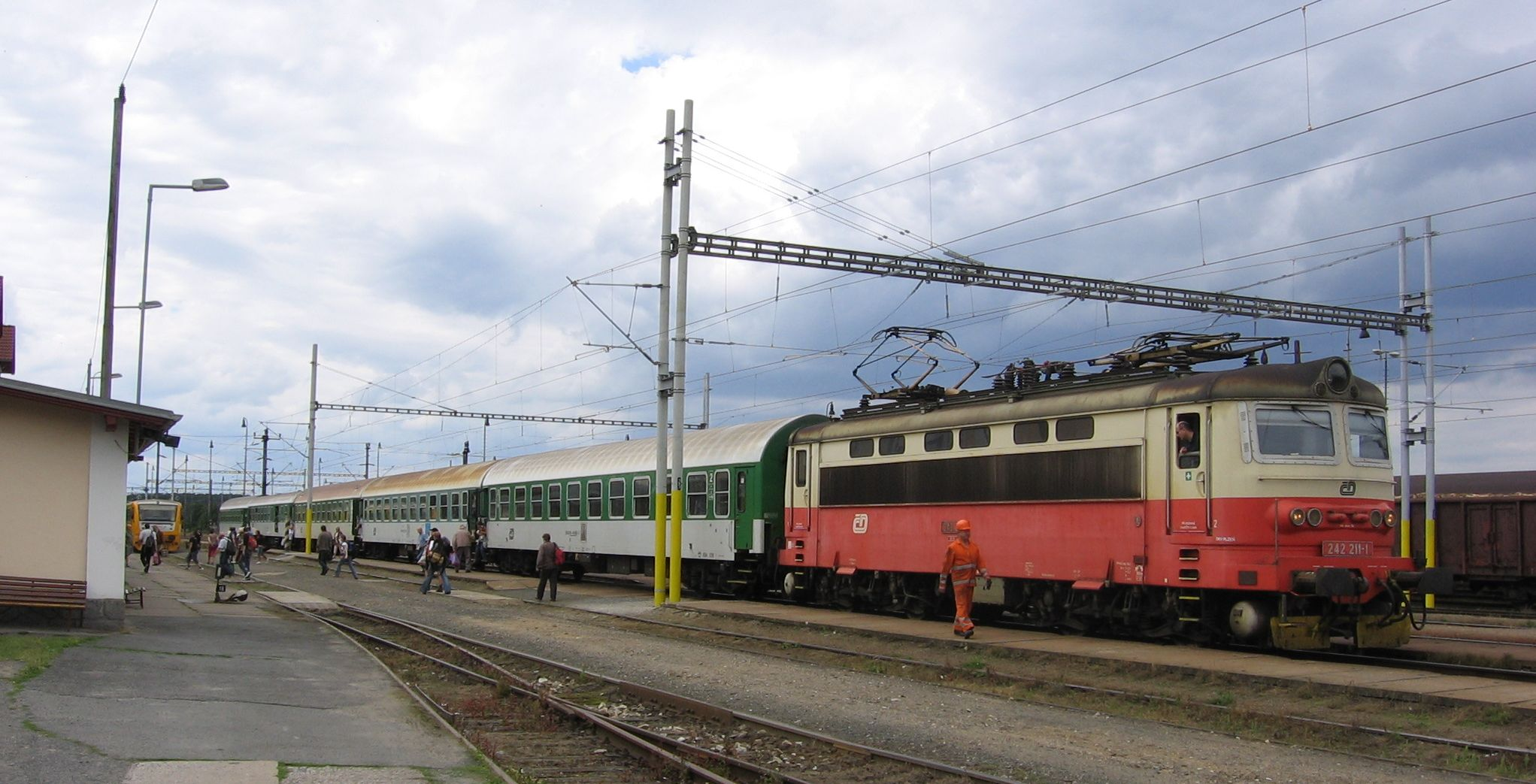 Fast train at station Horažďovice předměstí (2008)